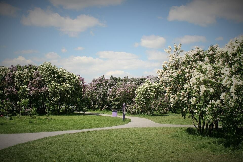 Lilac garden, may 2015